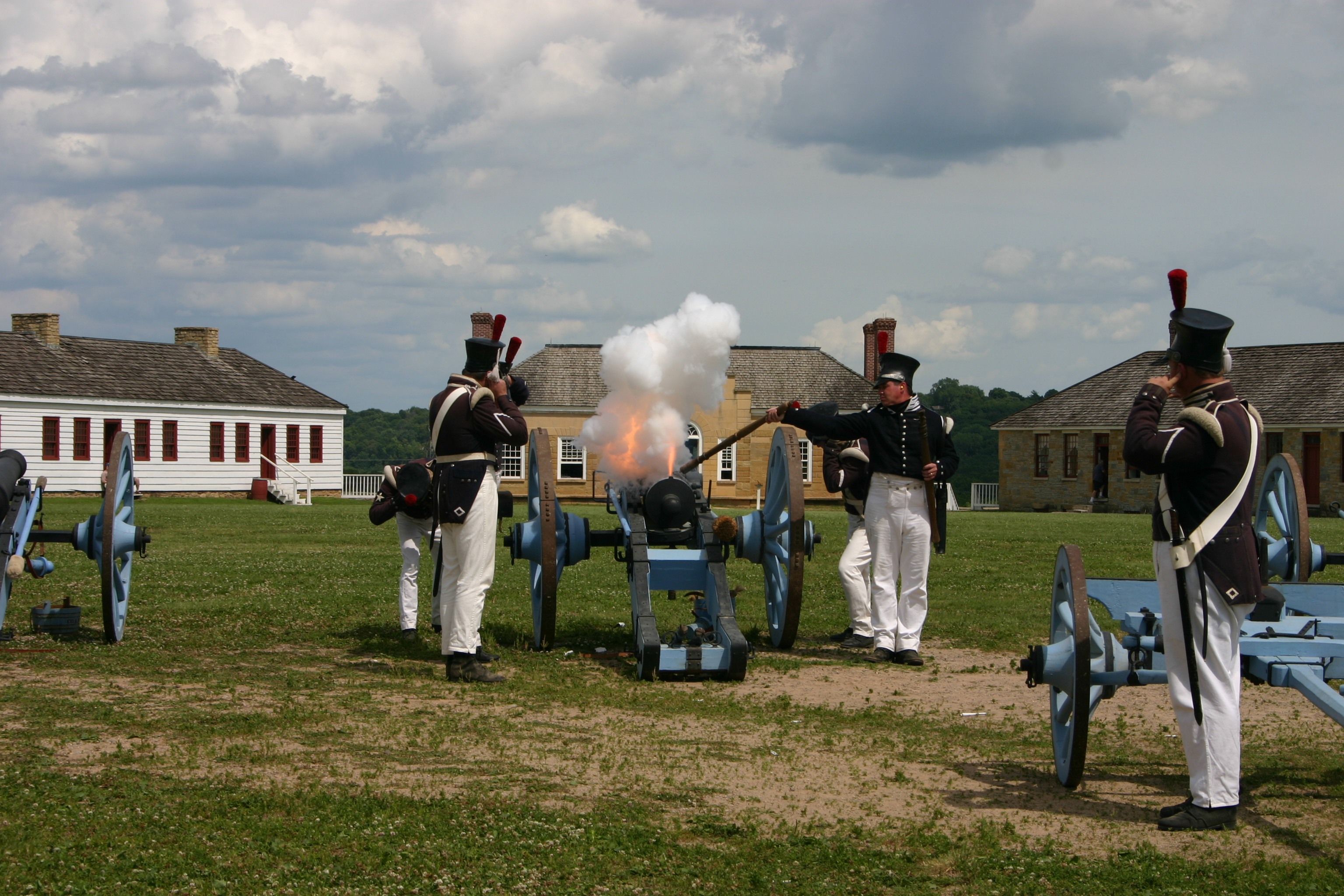 Soldiers firing a cannon at Fort Snelling, Minnesota.